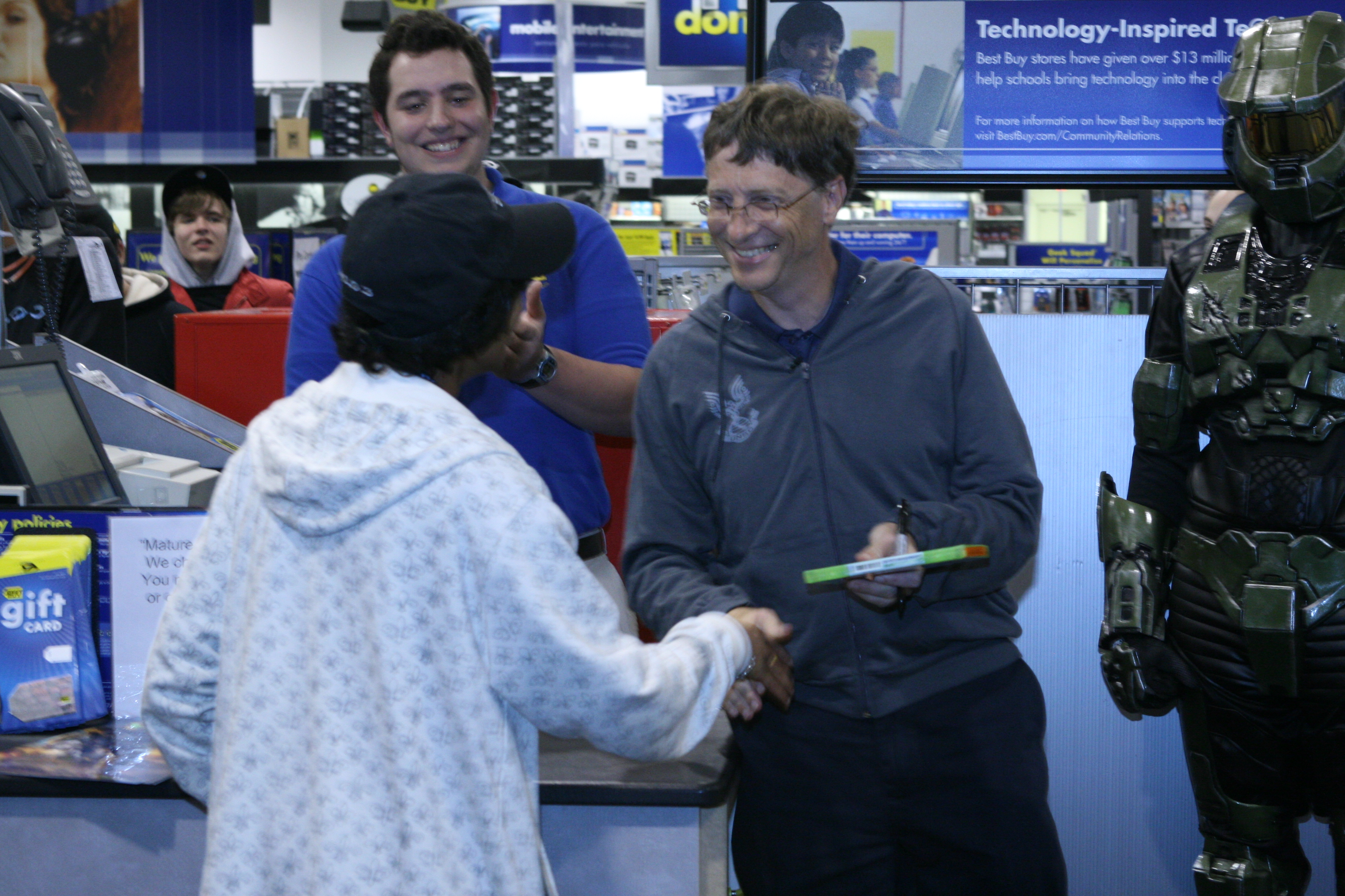 Bill Gates at the Best Buy store in Bellevue Washington, making an appearance for the Halo 3 launch.